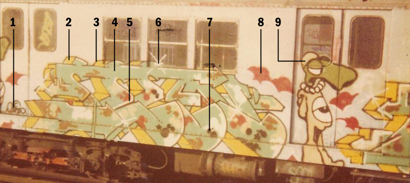 graffiti, seen panel on an irt #6 subway early 1980´s new york 1 tag 2 yellow blocks 3 black outlines 4 green fill-in 5 white inlines 6 highlights 7 bubble(s) 8 cloud/background 9 character